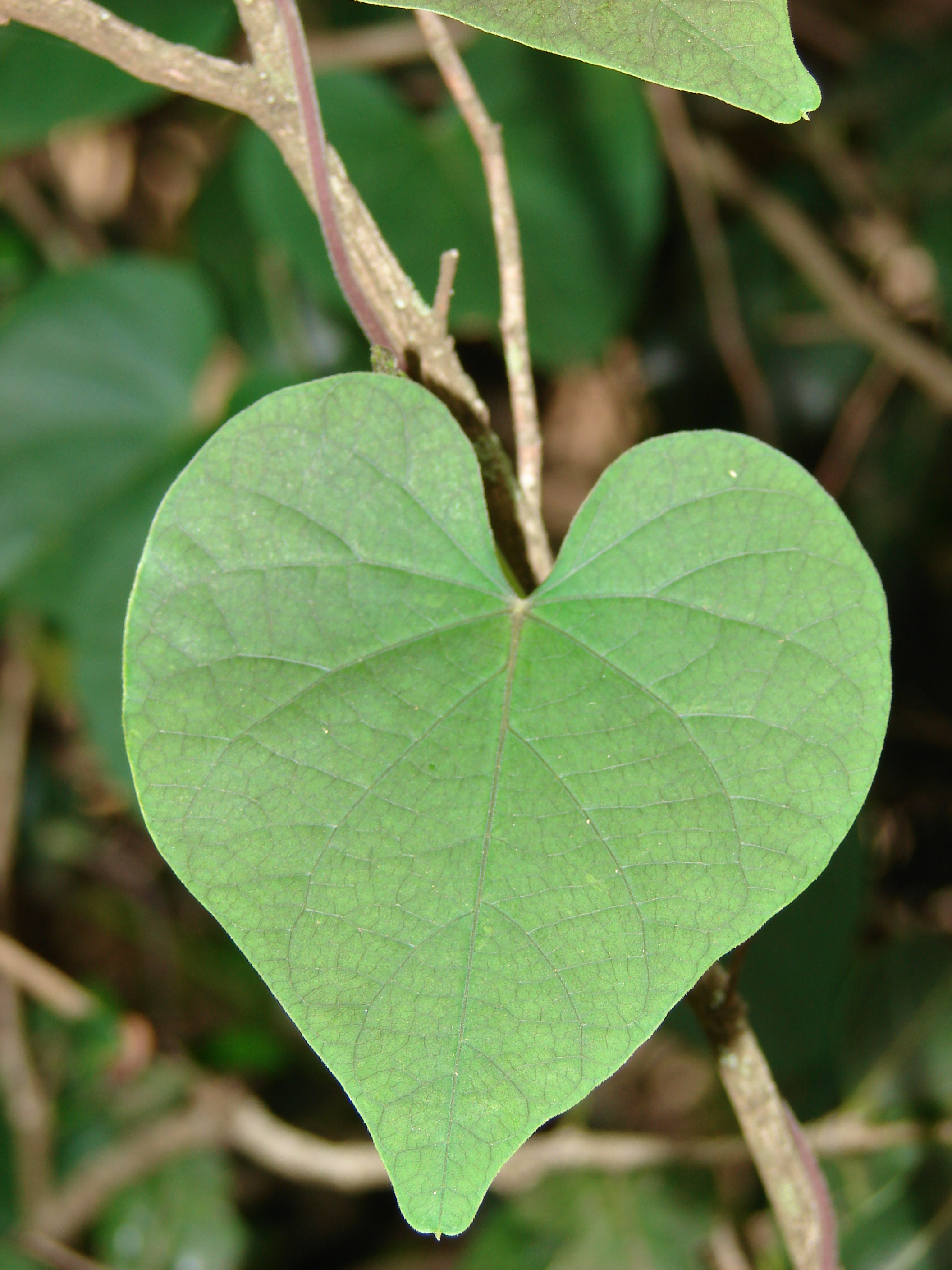 Ipomoea ochracea (heart shaped leaf). Location: Maui, Makawao